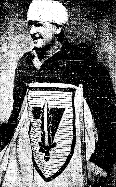 Captain Roy William Blake promoting Victory Loans outside of the Christie Street Hospital, Toronto, Ontario.